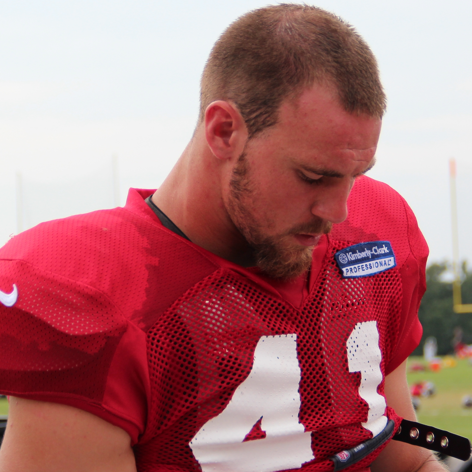 Zeke Motta at Falcons training camp